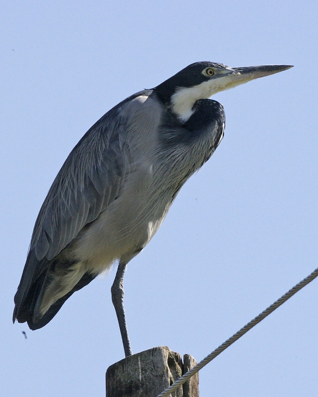 Black-headed Heron (Ardea melanocephala) standing on one leg, Nakuru, Kenya, 31st August 2008.